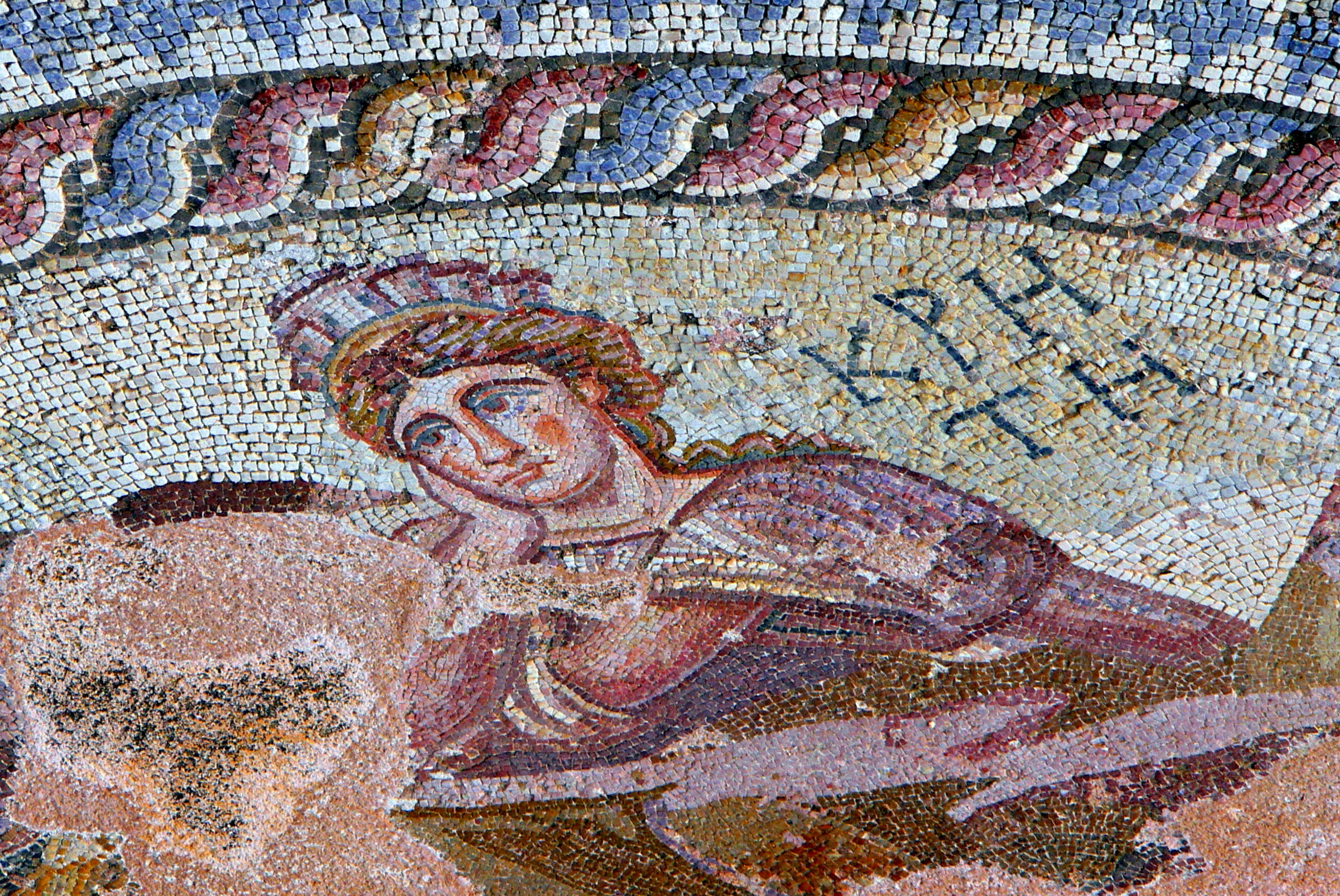 Paphos Archaeological Park. House of Theseus: Mosaic of Theseus killing the minotaur - Allegory of Crete ( detail ).